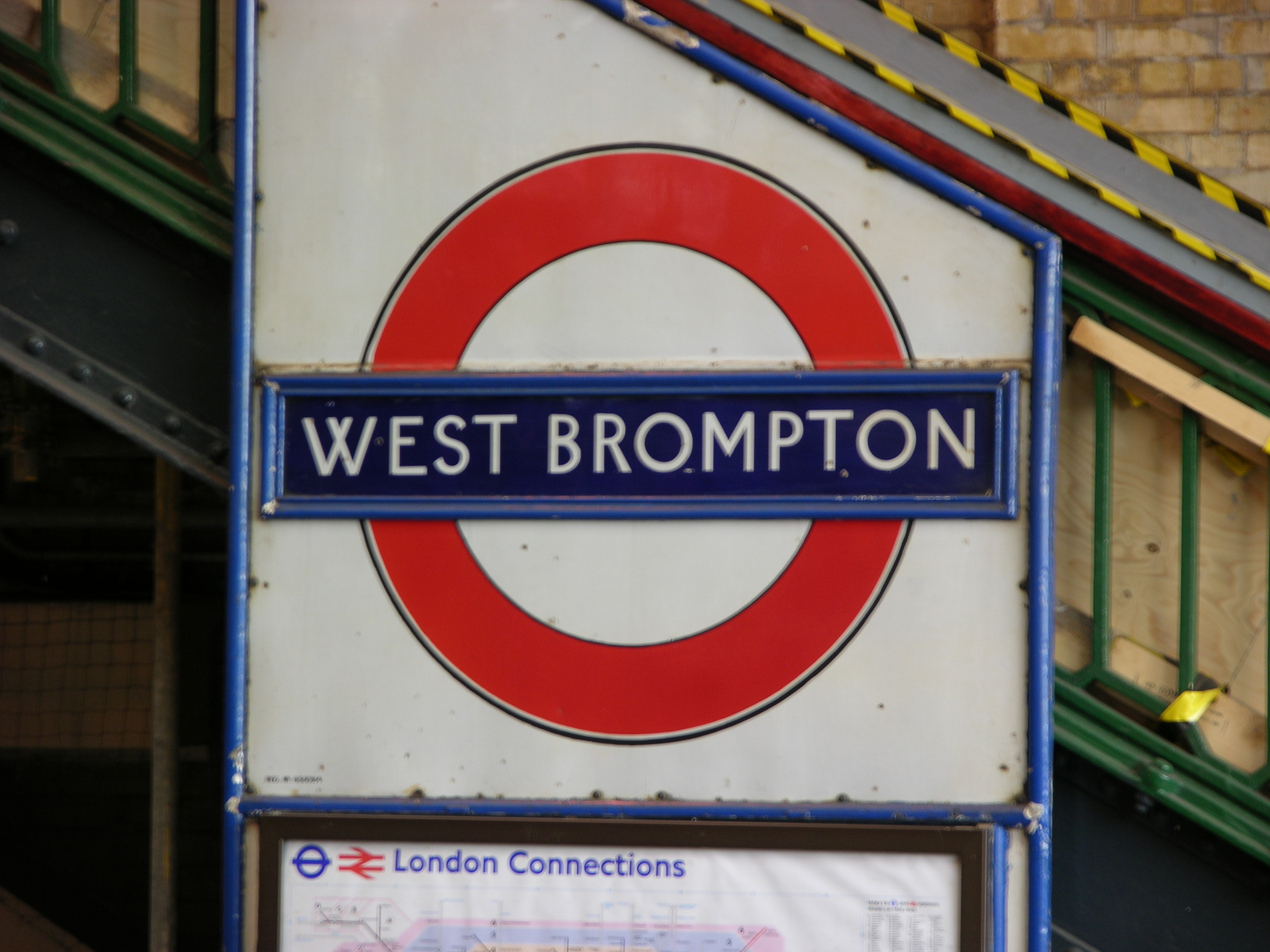 Note the vintage version of Johnston Underground (the crossed W)